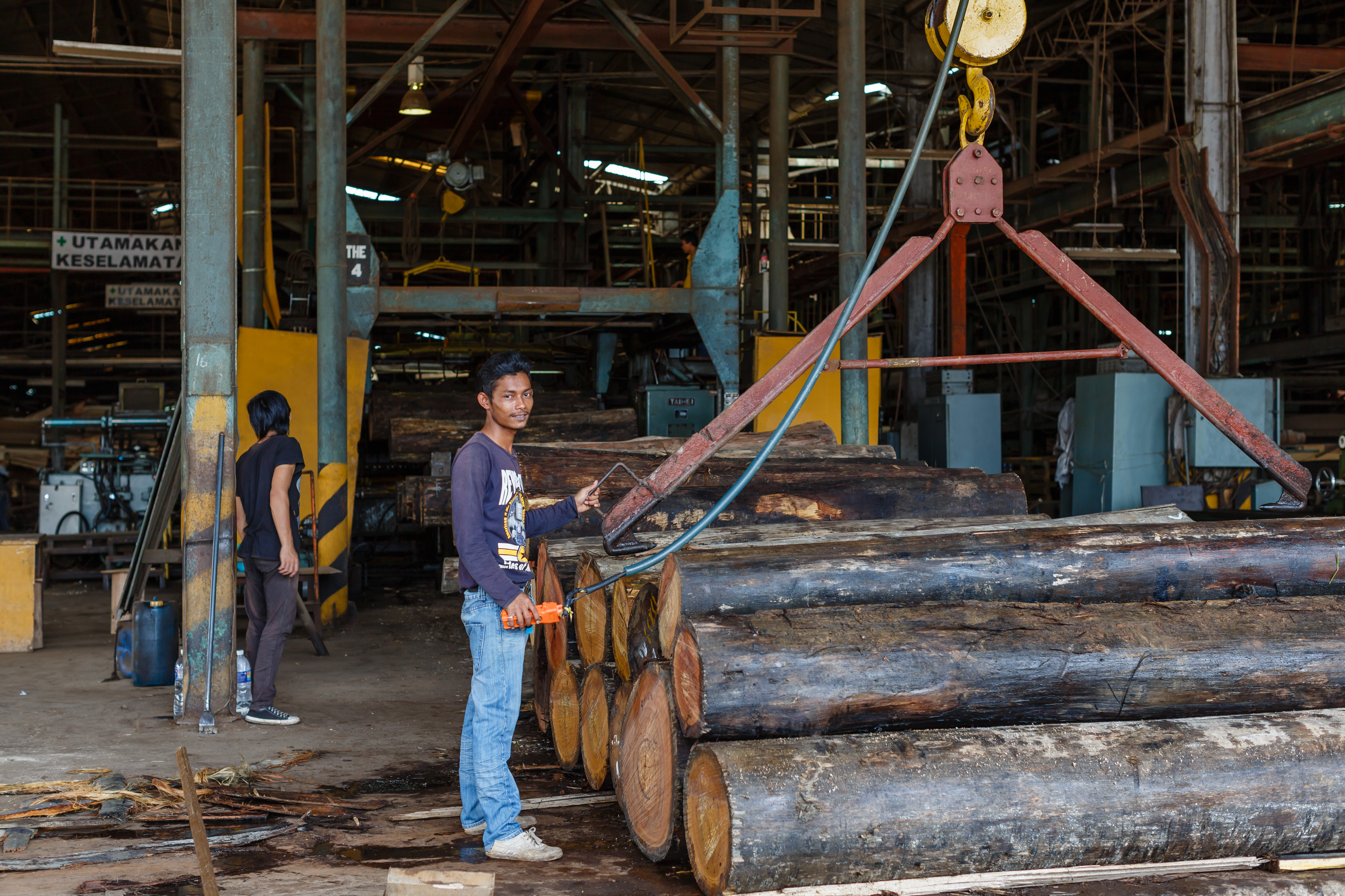 Sandakan, Sabah: Plywood Factory; A worker is lifting the timber from Timber Pond to the Infeed Point of the peeling line